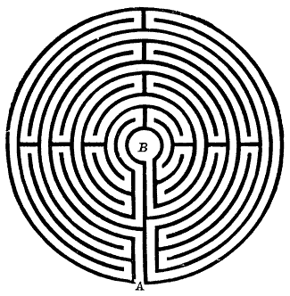 Labyrinth 1